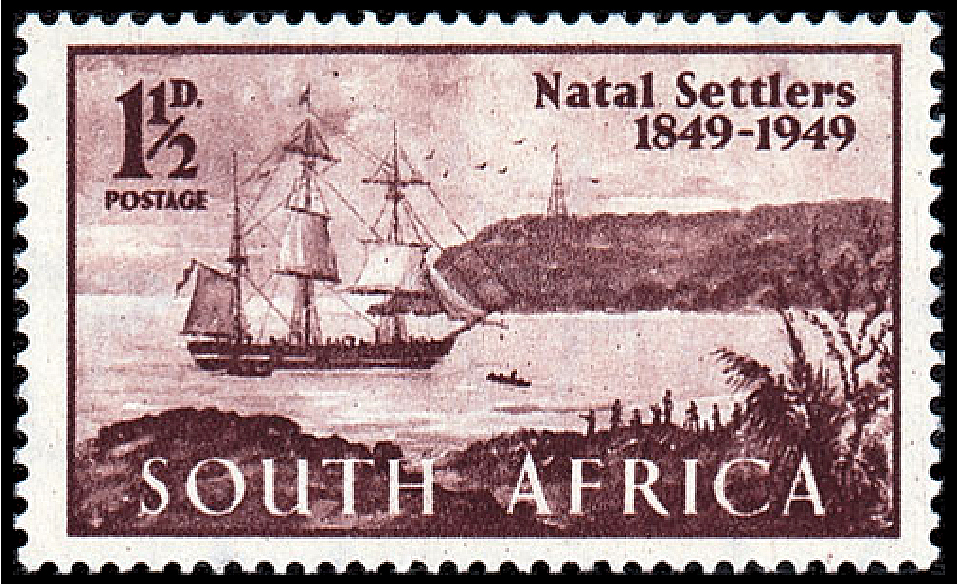 Postage stamp of South Africa, Wanderer ship entering Natal, 1,5d, 1949